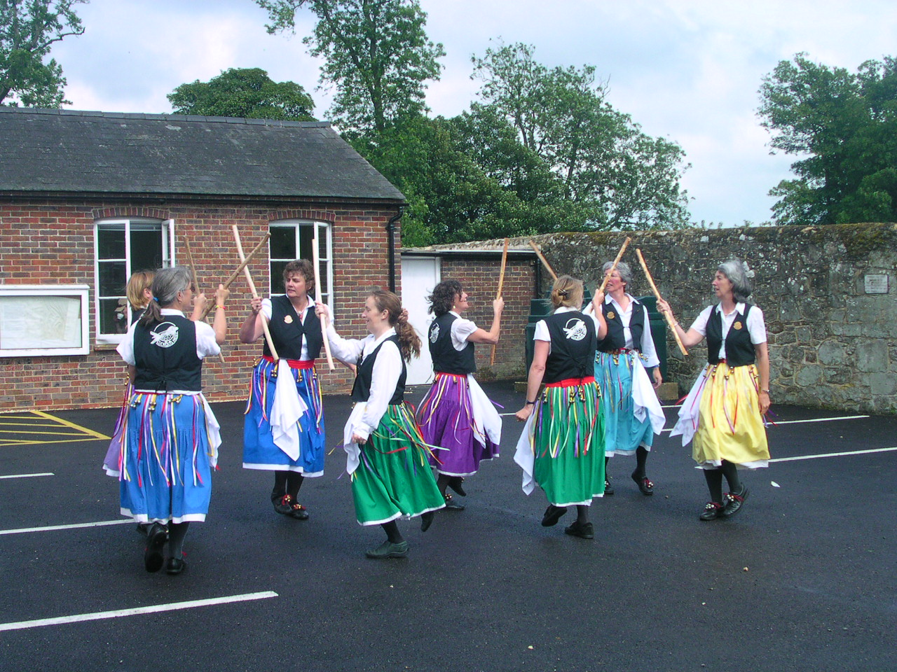 Tillington, West sussex, England. Summer 2007